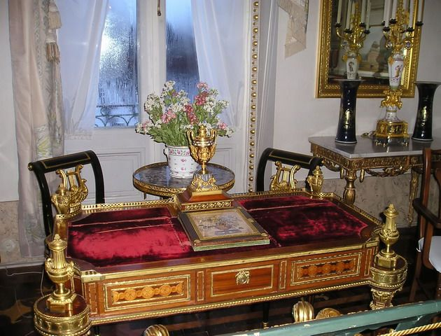 Pavlovsk Palace.